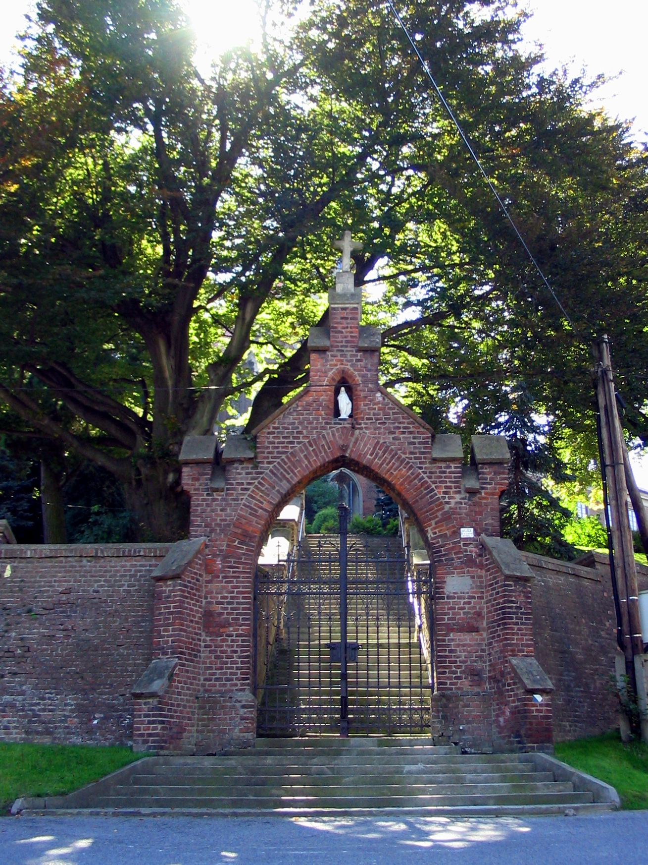 Cloister of Carmelite Sisters in Przemyśl